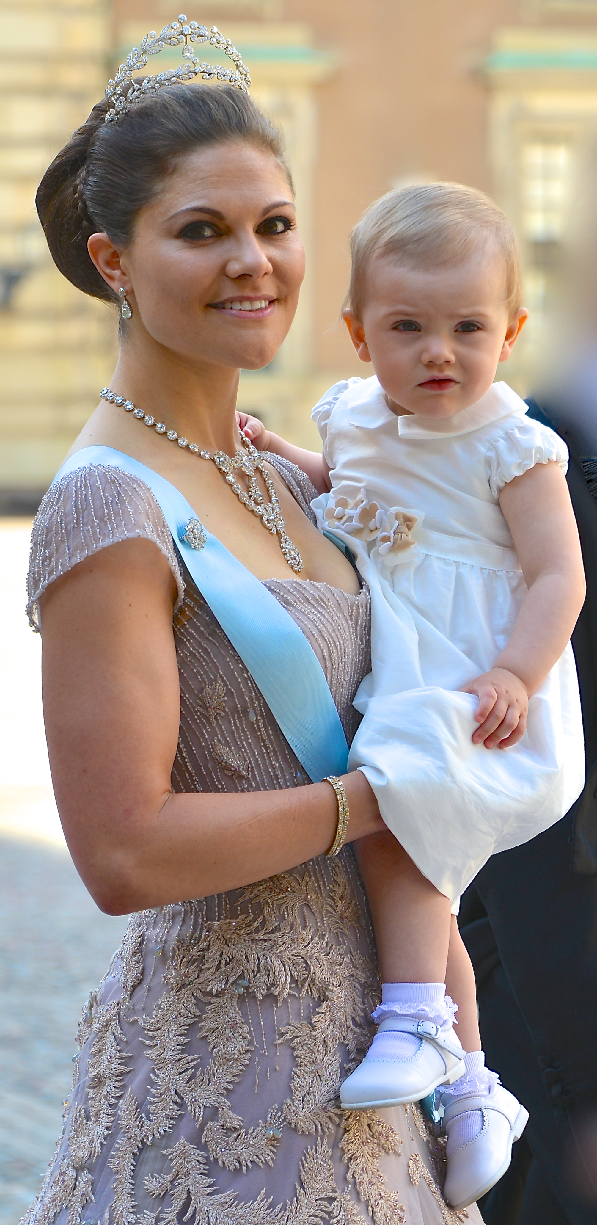 Crown Princess Victoria and Princess Estelle on the way to the castle church at the Royal Palace in Stockholm for the wedding between Princess Madeleine and Christopher O'Neill, June 8, 2013.